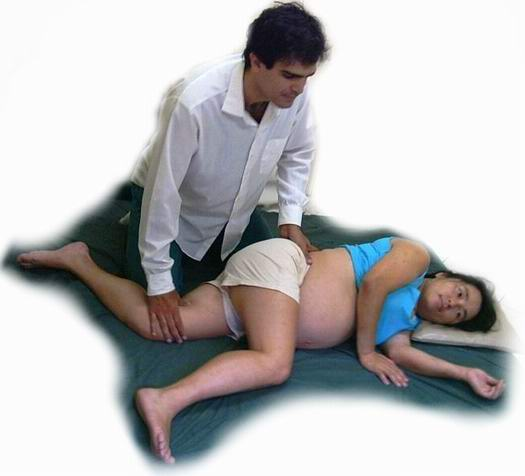 Shiatsu is being applied by a professional therapist in a pregnant ((lay position). There are some specific strokes and cares on this case.